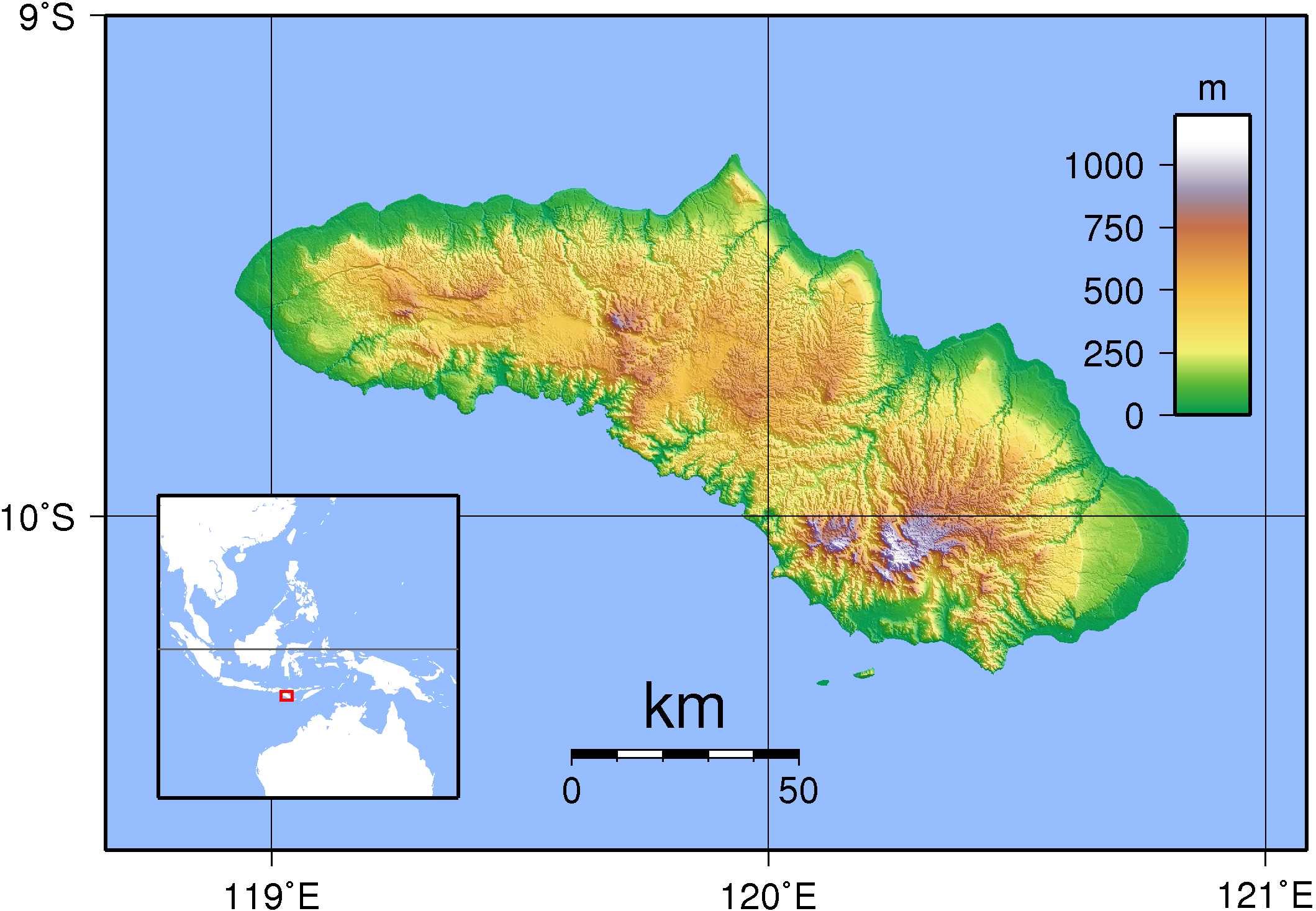 Topographic map of Sumba. Created with GMT from SRTM data.